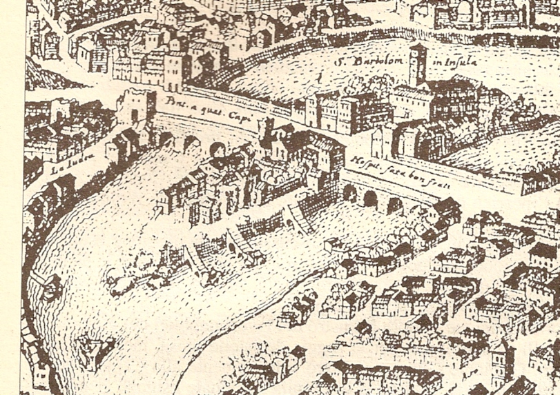 Taken from Federico Gizzi, Le chiese medievali di Roma.